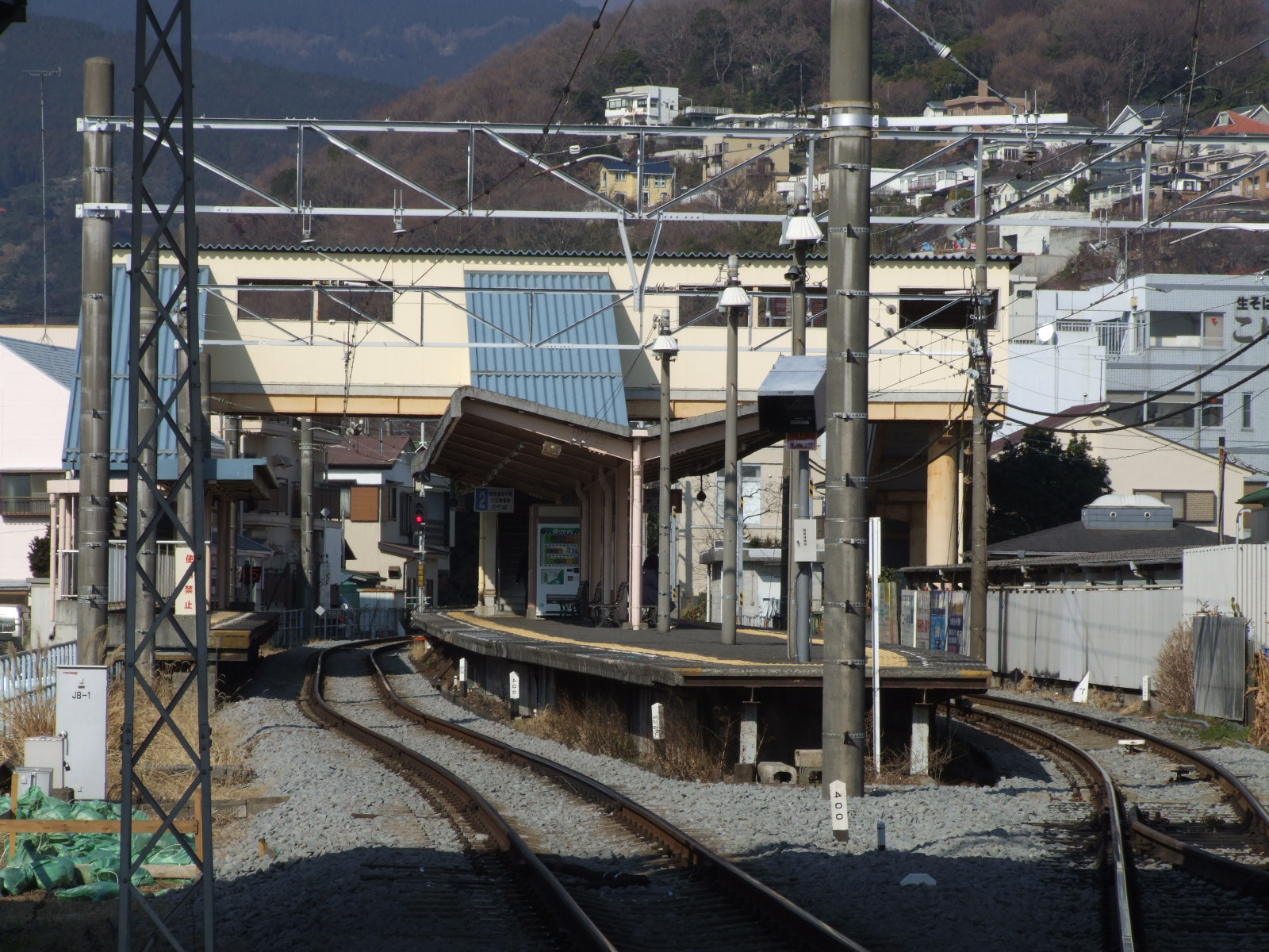 Precincts of Hakone-Itabashi station,Hakone Tozan Railwey,Kanagawa,Japan Lover of Romance take a photograph.